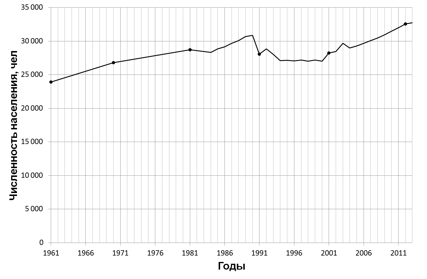 Gibraltar population 1961-2013 by Statistic Office of Gibraltar